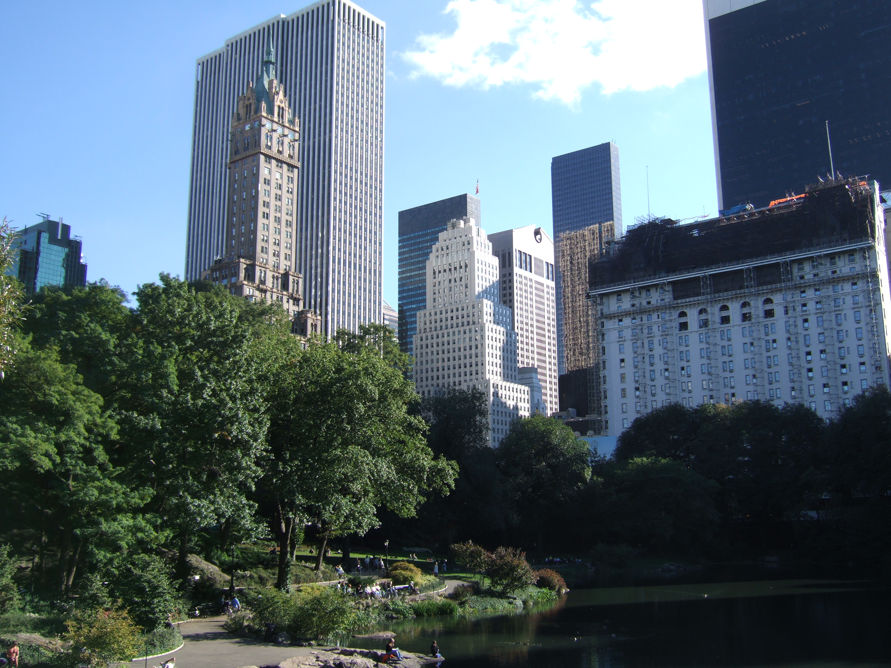 View of the Plaza from Central Park, October 2006. Central Park DSCF2447.JPG